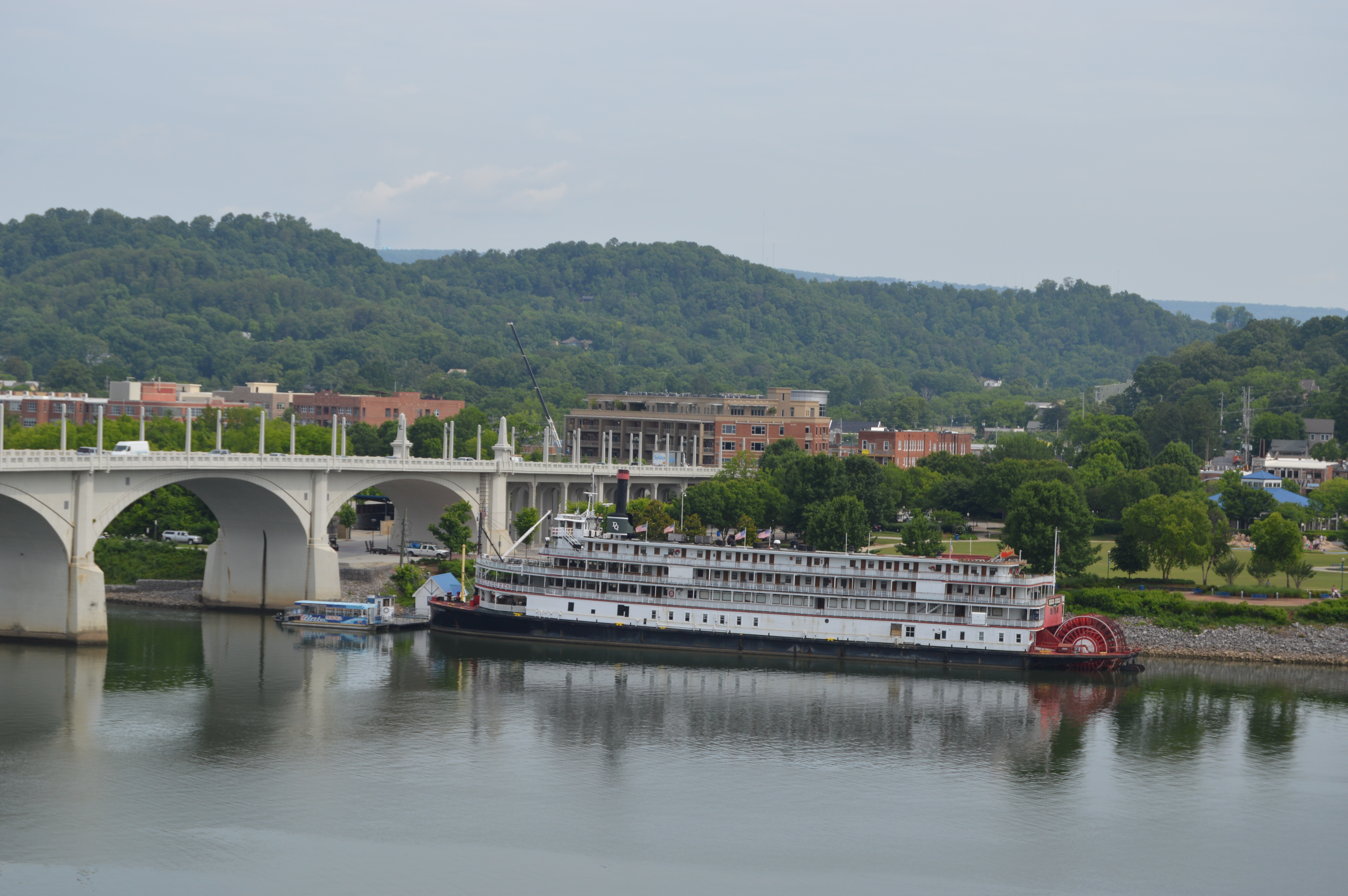 This is a photo of the Delta Queen harbored on the Tennessee River in Chattanooga, Tennessee.